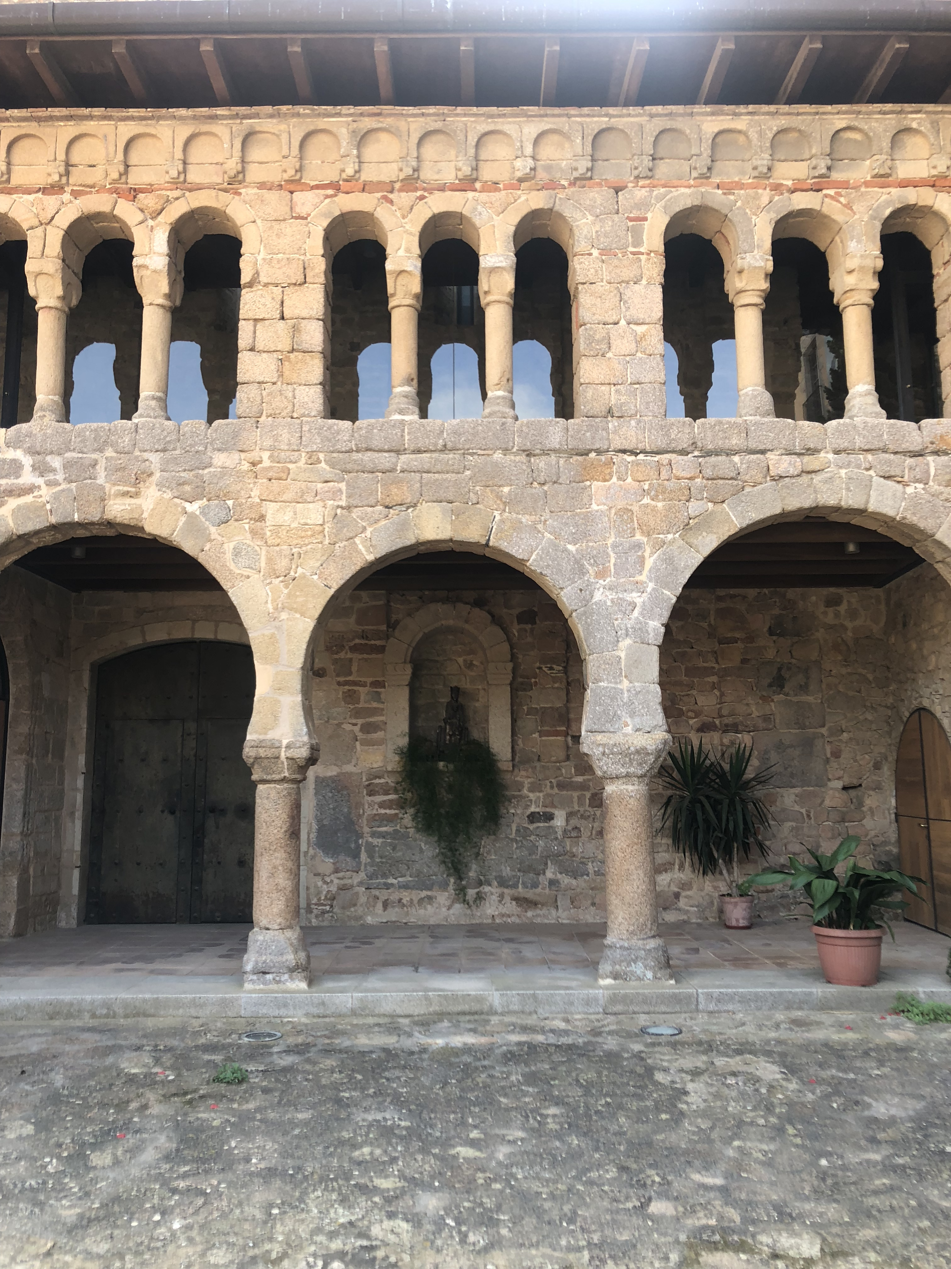 Actual “Porta Ferrada”